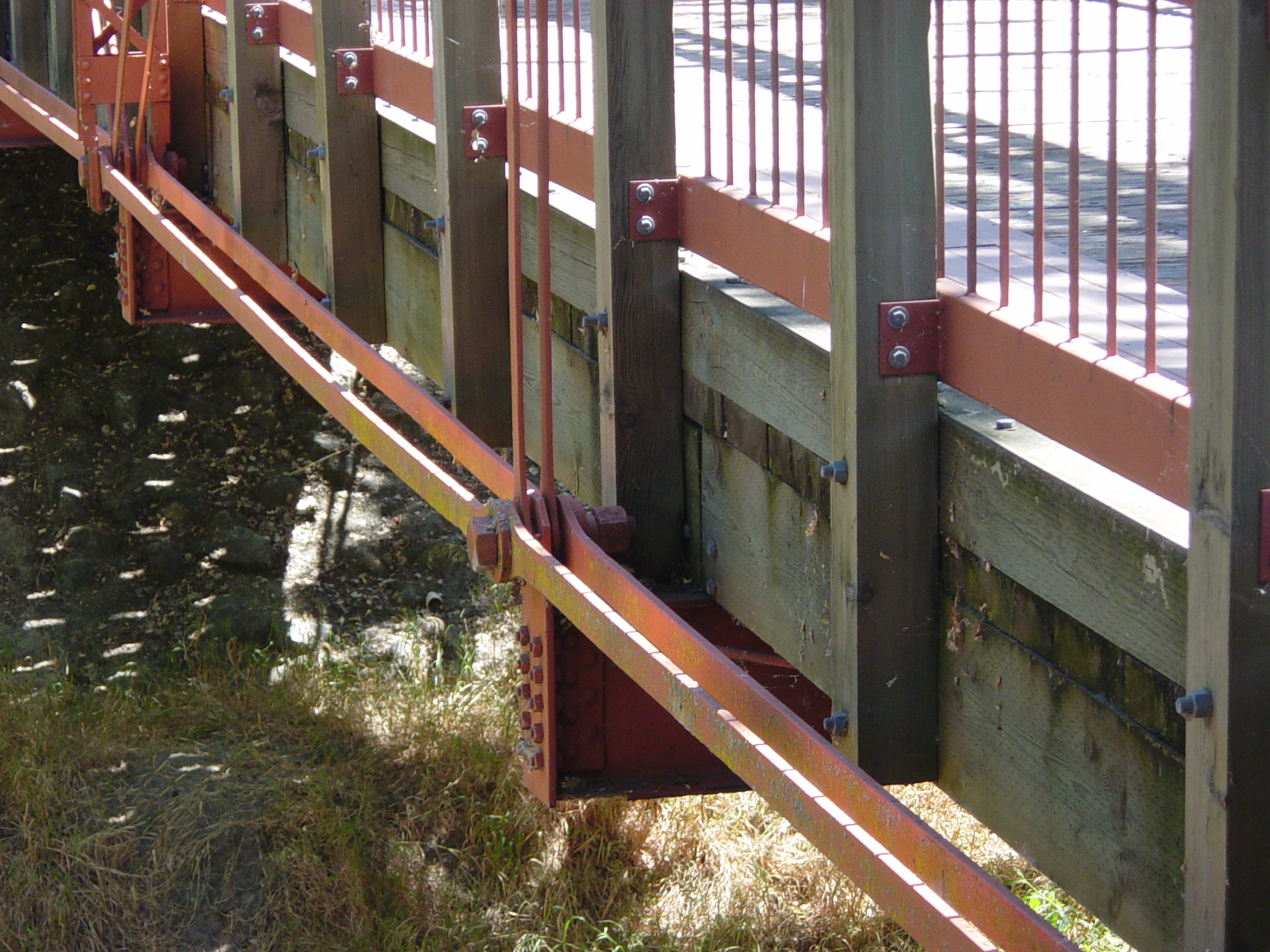 Eyebar detail. Image taken and uploaded by User:Leonard G.